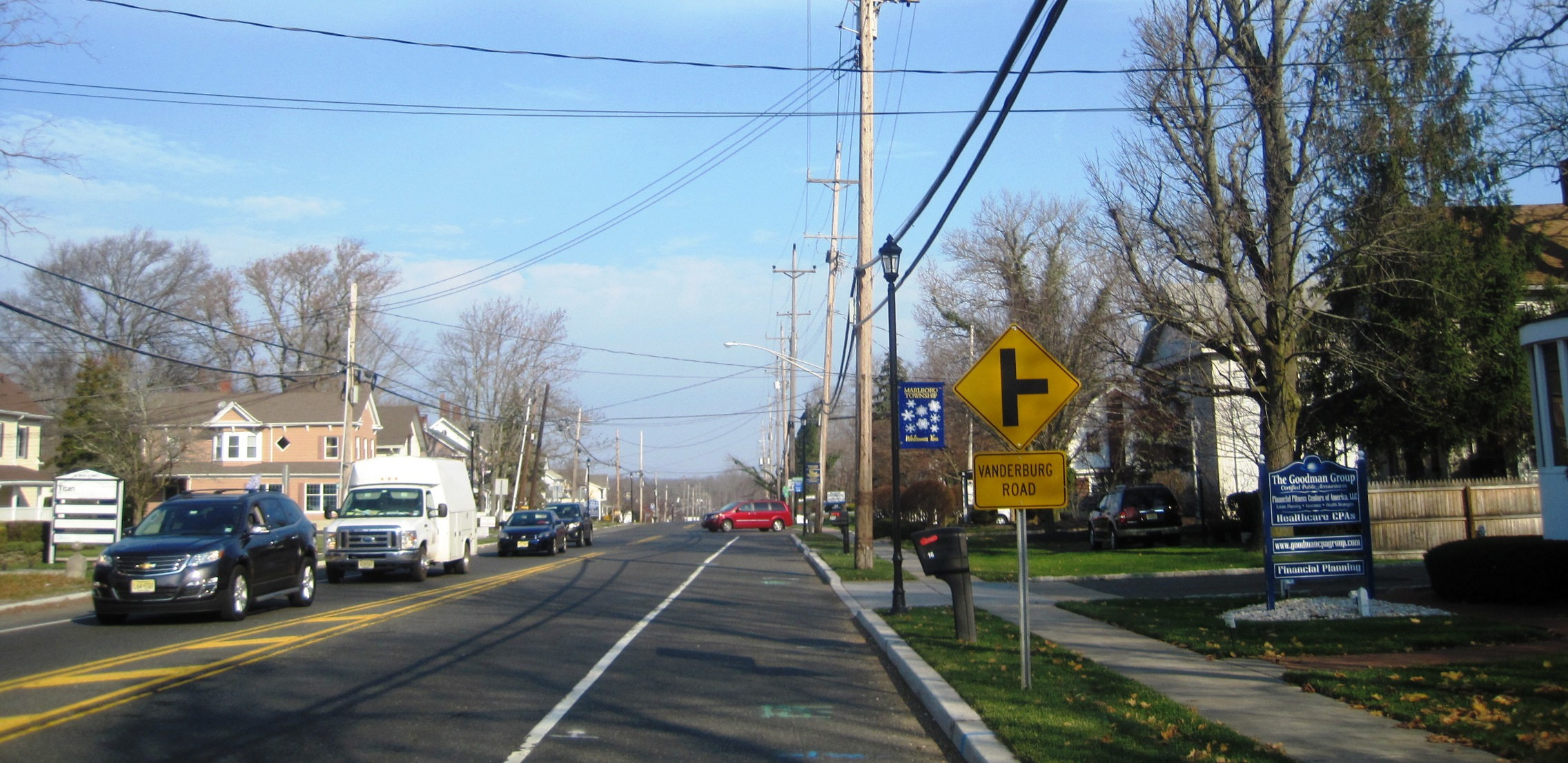 Photo of Marlboro, New Jersey, an unincorporated settlement within Marlboro Township. Photo taken along northbound New Jersey Route 79 approaching Vanderburg Road.